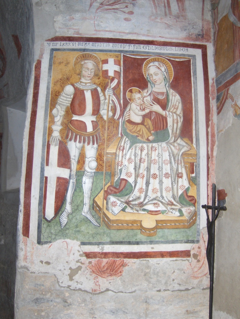 Ancient fresco